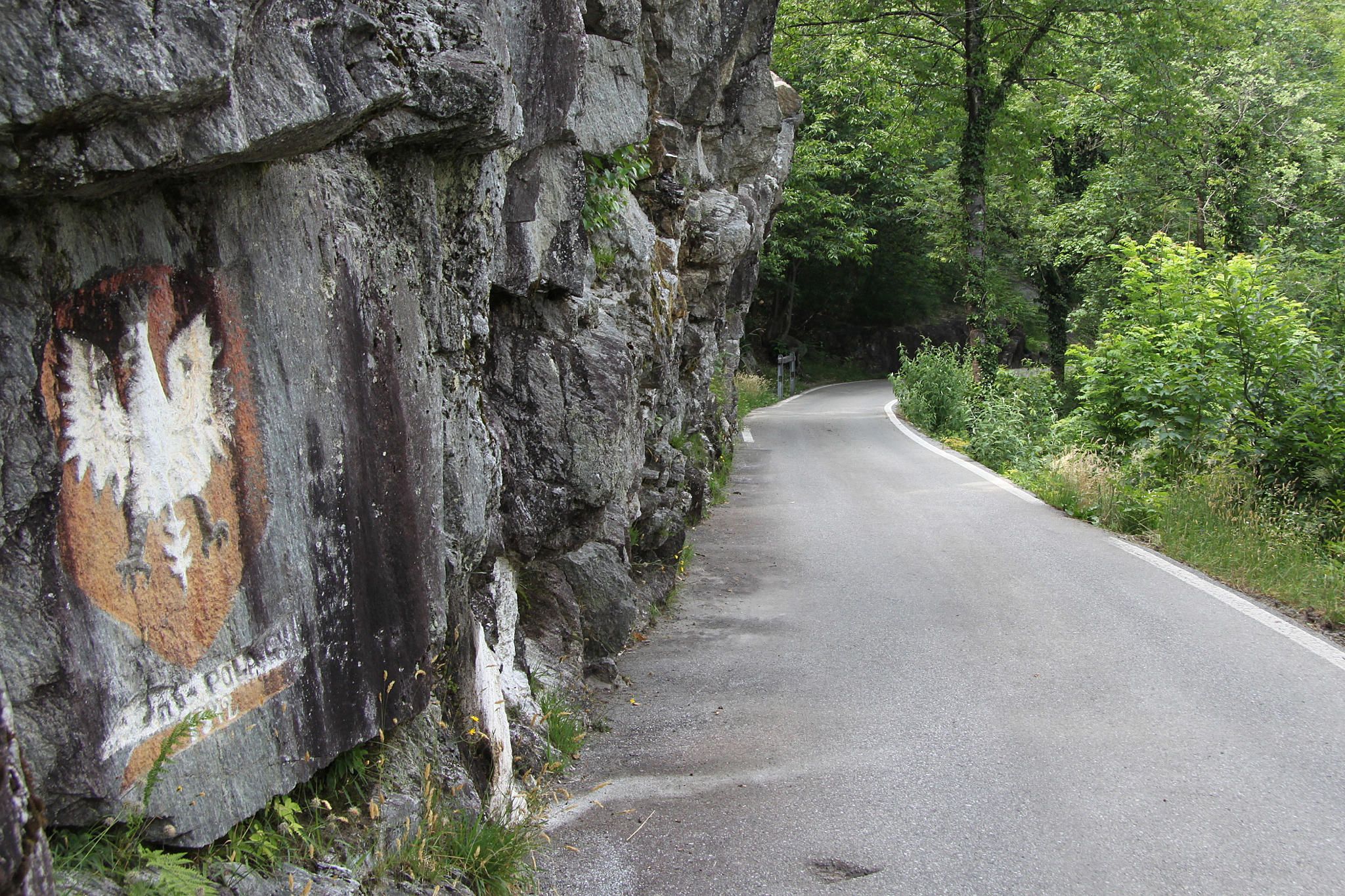 "Poles' road" (Italian: "strada dei Polacchi") in Losone.